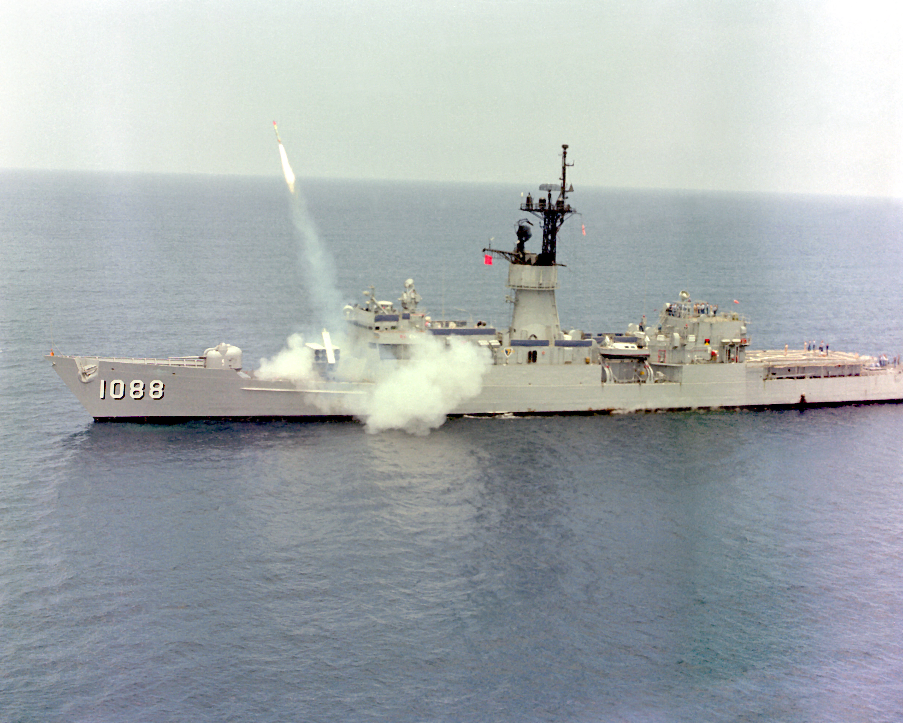 A port view of the frigate USS BARBEY (FF-1088) firing two Harpoon missiles from the forward ASROC launcher.